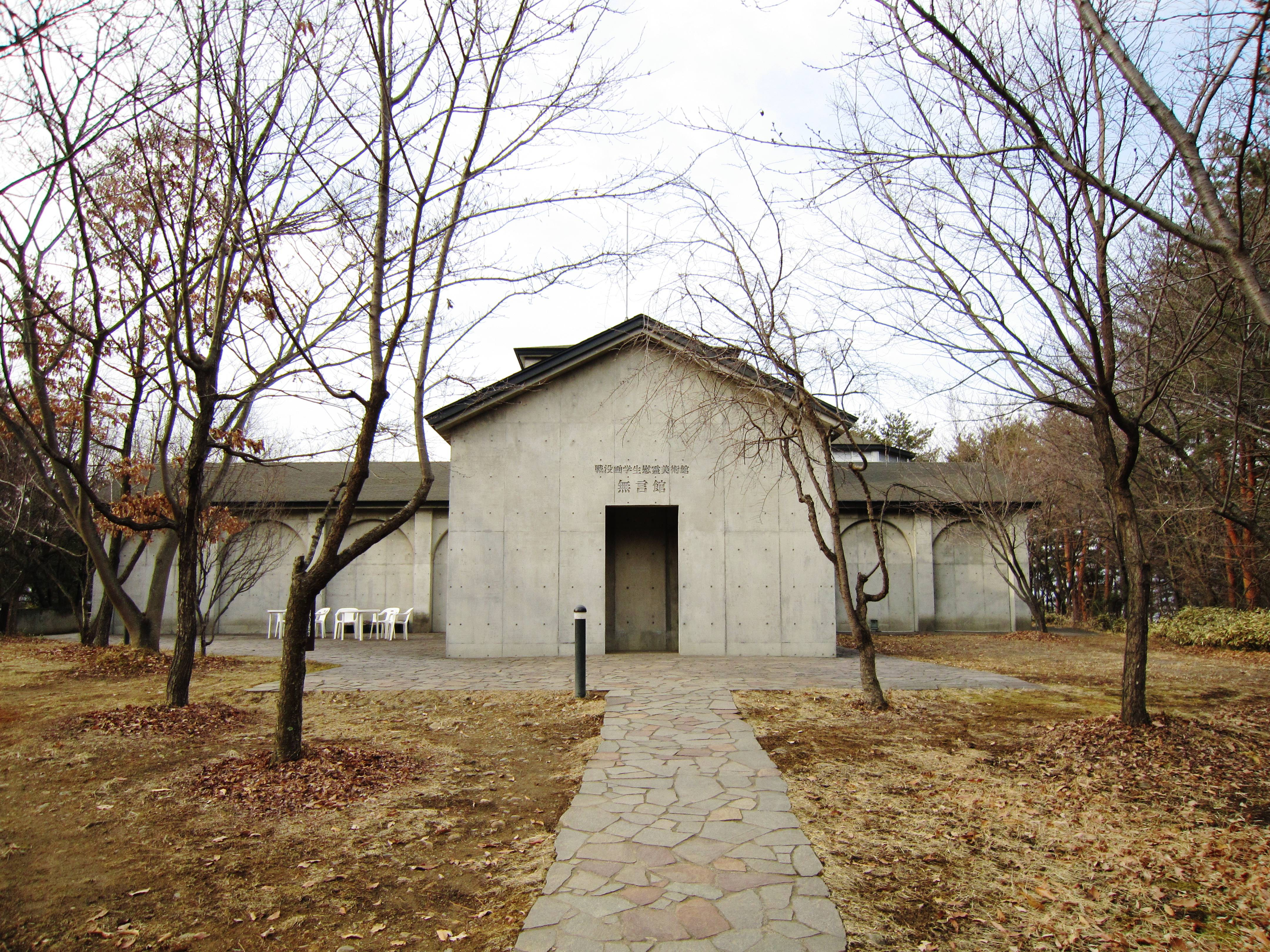 Mugonkan.